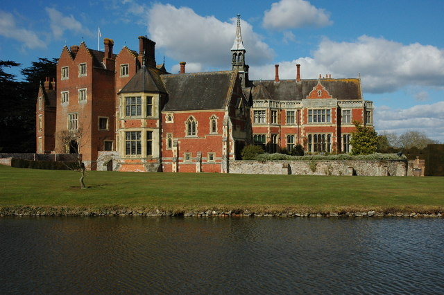 Madresfield Court Much of the picturesque moated Madresfield Court is Victorian with some of the Elizabethan building surviving, though the house is on a site of an early building. The house has never been bought or sold and has remained in the same family for twenty-eight generations, some 1,000 years. In the 1930s, the author, Evelyn Waugh was a regular visitor to Madresfield Court, thus providing the inspiration for his book, 'Brideshead Revisited'.